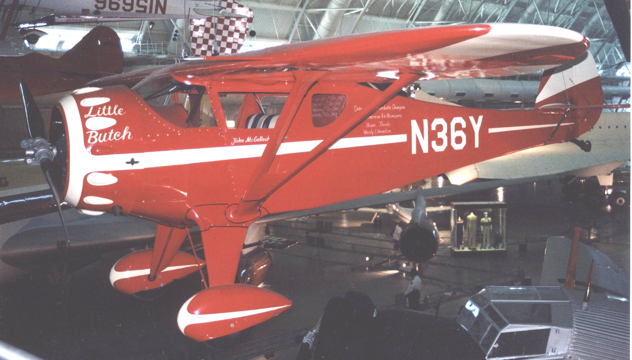 Monocoupe 110 Special N36Y "Little Butch" at the National Air & Space Museum, Washington DC.